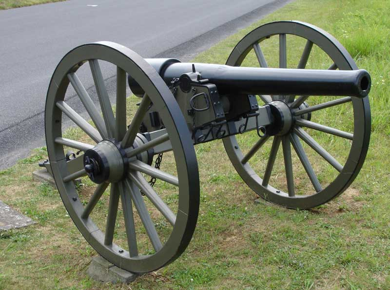 photographed at Gettysburg National Military Park, 2005